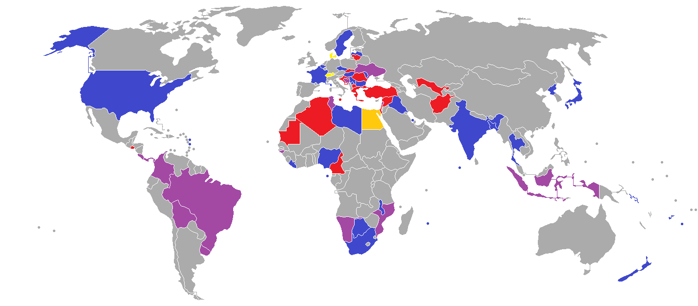 Countries that held or will hold general elections either for the head of state (most often the presidency), or for the national legislature or parliament (either the entire body or only a specific class), and nationwide referendums. Key: Red: Presidential elections Purple: Presidential and parliamentary/legislative elections Blue: Parliamentary/legislative elections Green: Parliamentary/legislative elections and referendums Yellow: Referendums Orange: Presidential elections and referendums Black: Presidential and parliamentary/legislative elections, and referendums Gray: Cancelled